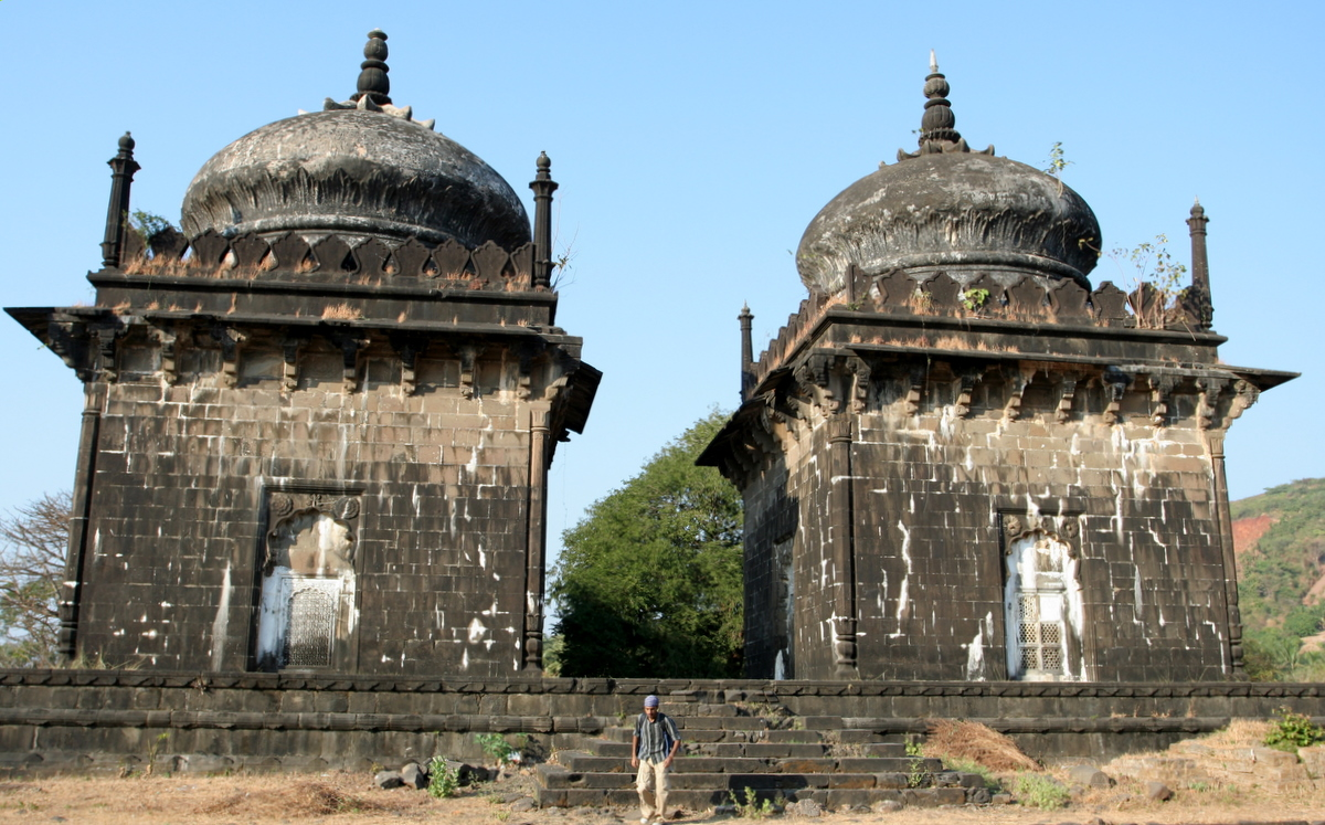 Smaller tombs from the Khokari Tombs, Maharashtra, India.